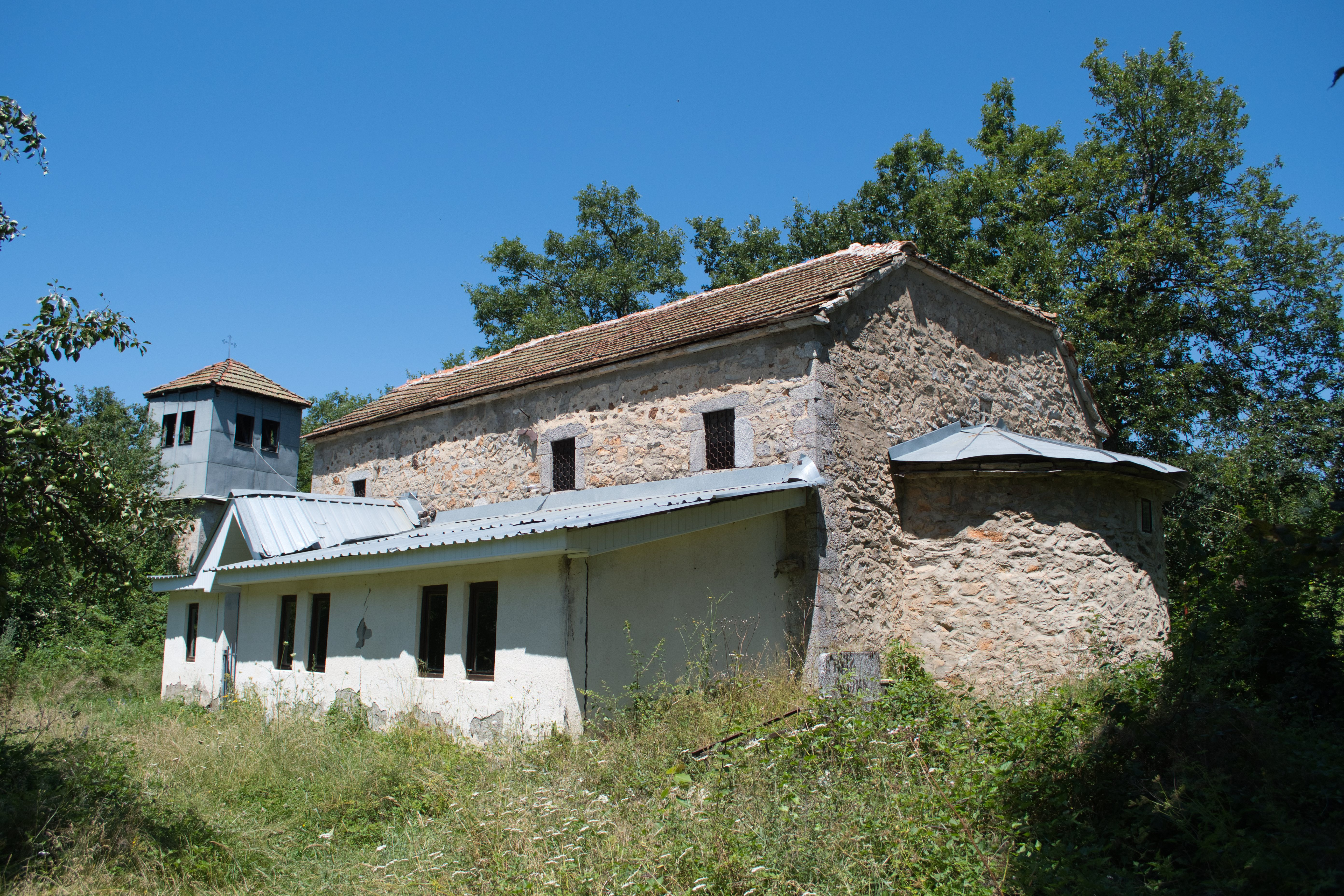 Presentation of the Theotokos Church in the village of Burinec